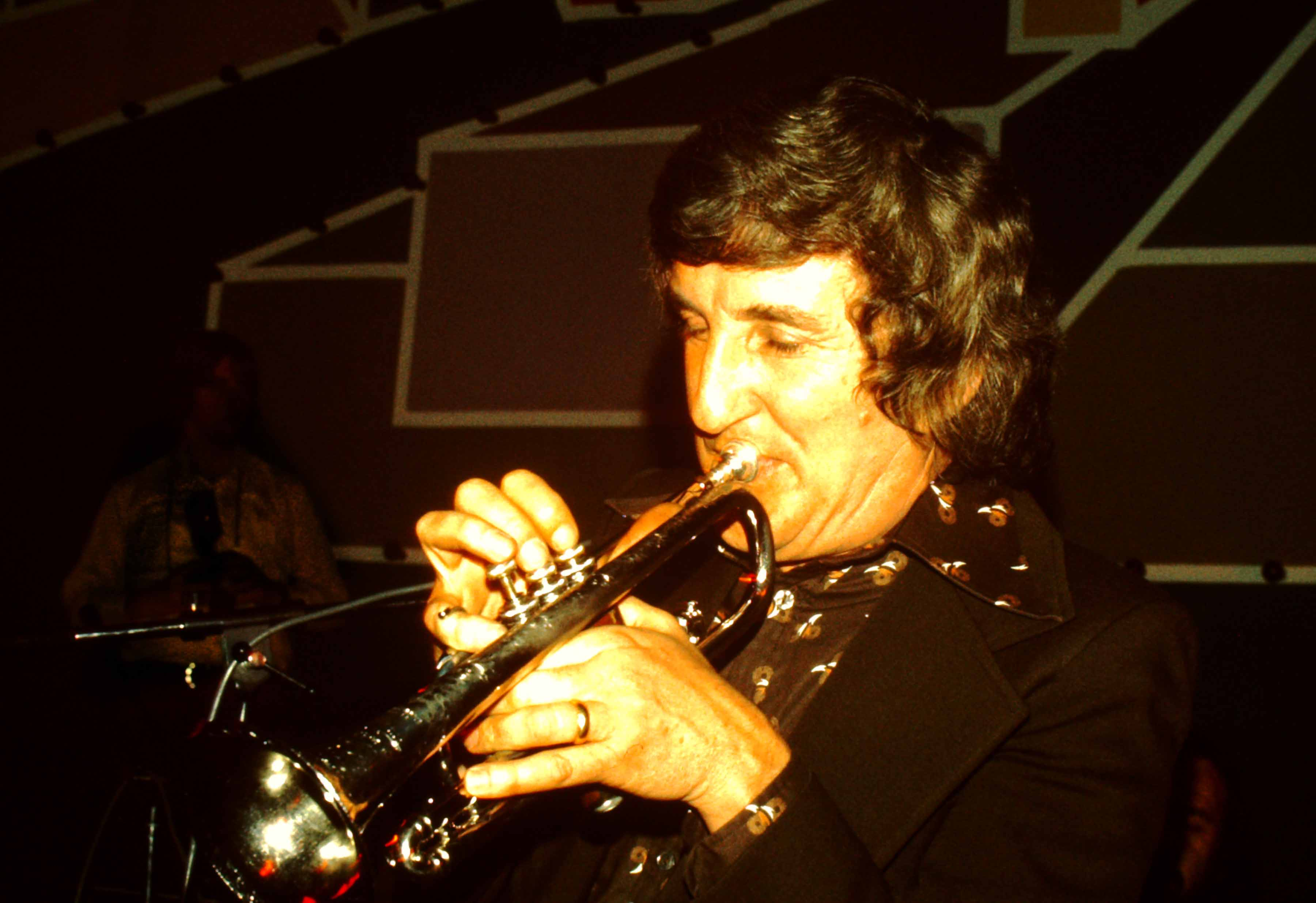 Pat Halcox, member of Chris Barber's Jazz Band, Göppingen, Germany, 1975